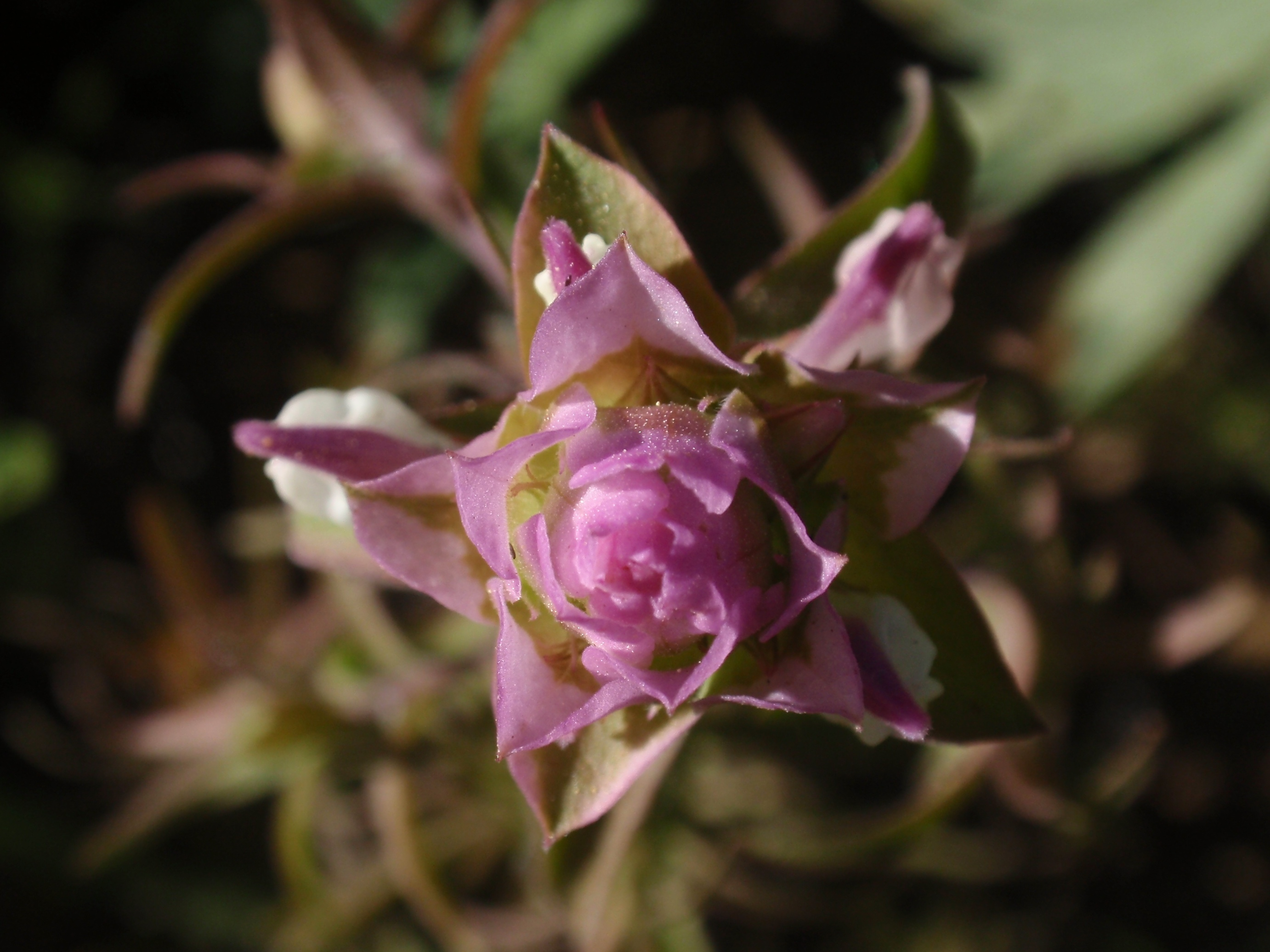 Orthocarpus imbricatus in Long Canyon, Trinity Alps, California, USA.